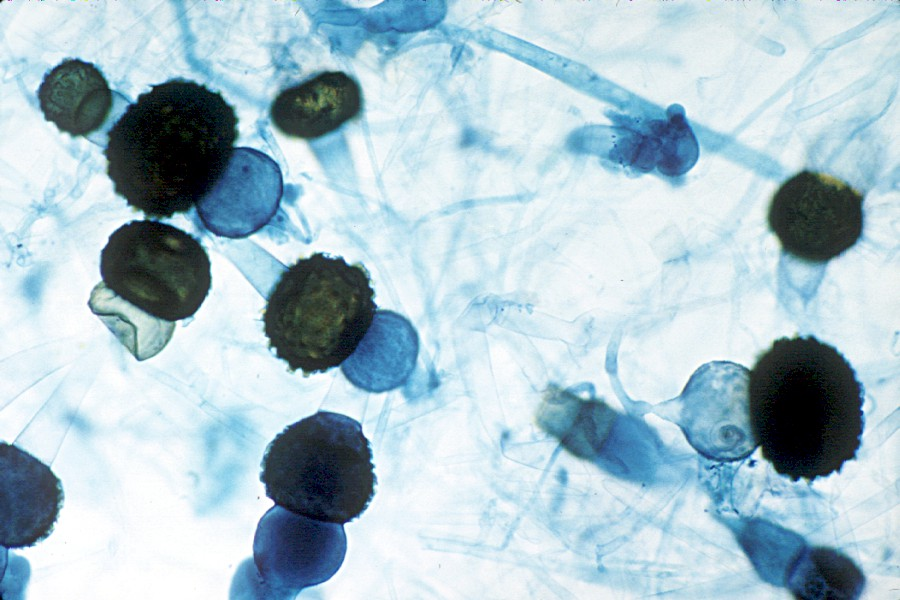 Light micrograph of a whole-mount slide of zygospores of Rhizopus